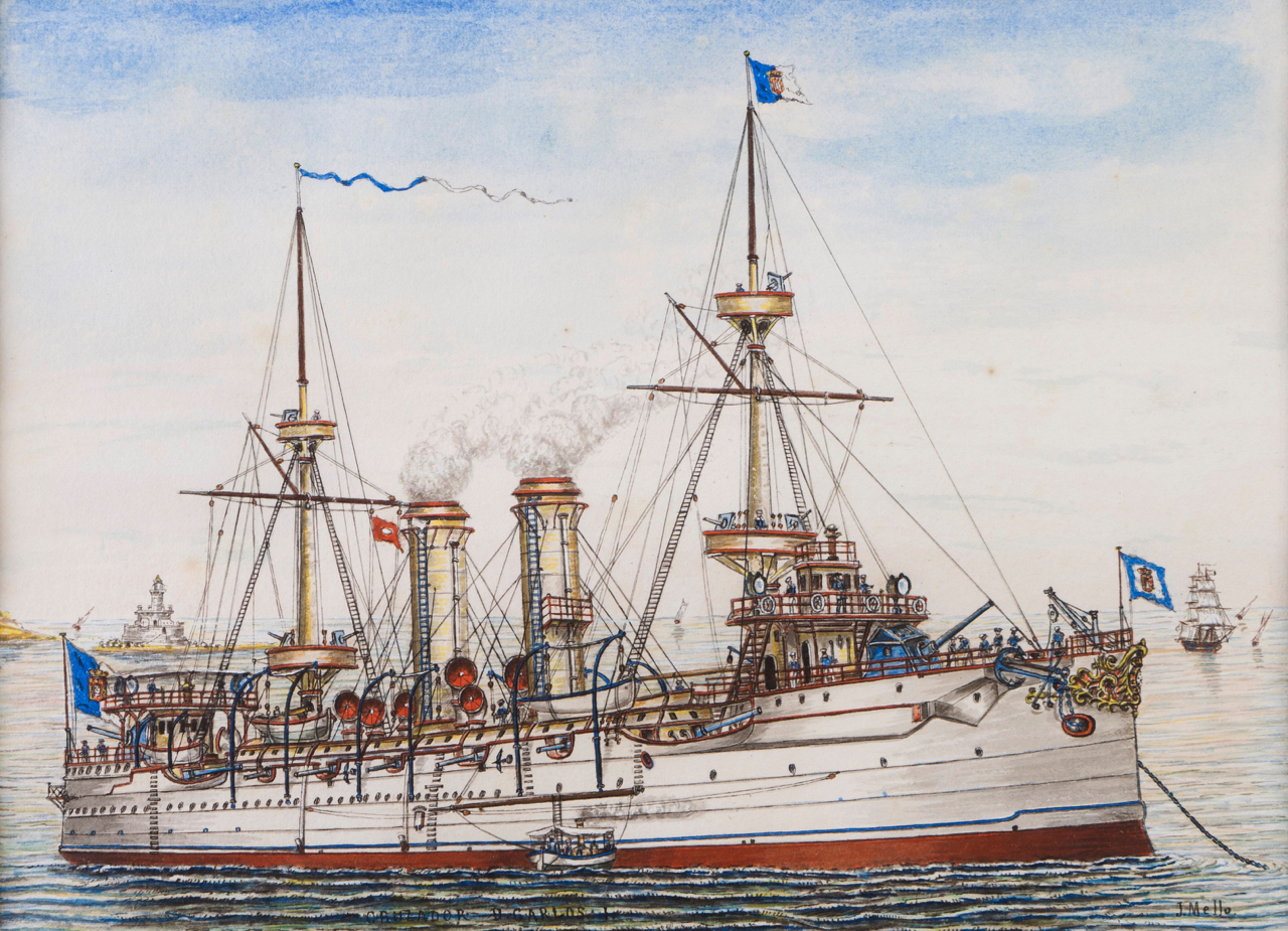 The Protected Cruiser D. Carlos I, in a 1899 painting.